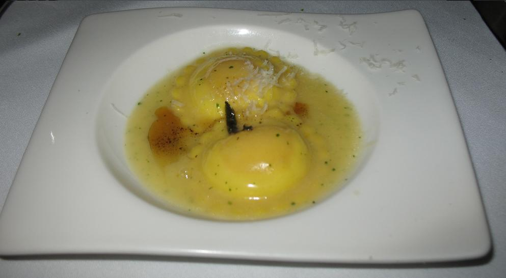 Famed Quail Egg Ravioli from Schwa in Chicago